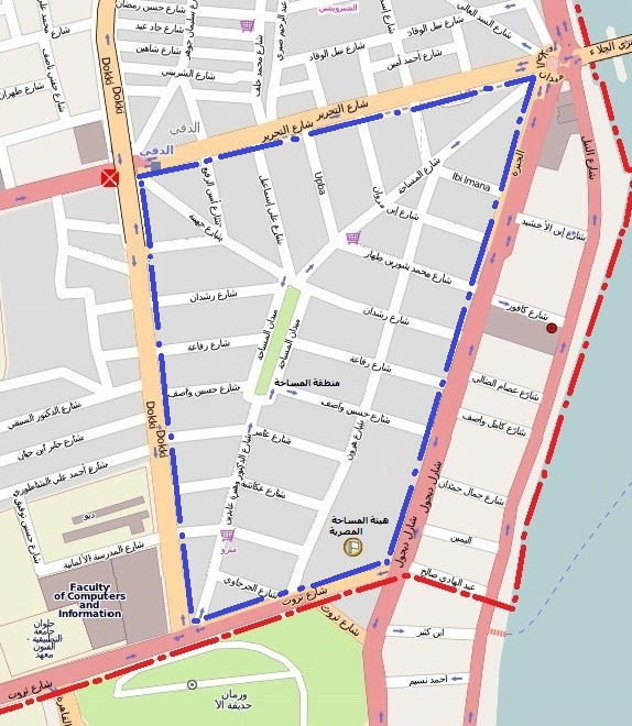 Elmesaha